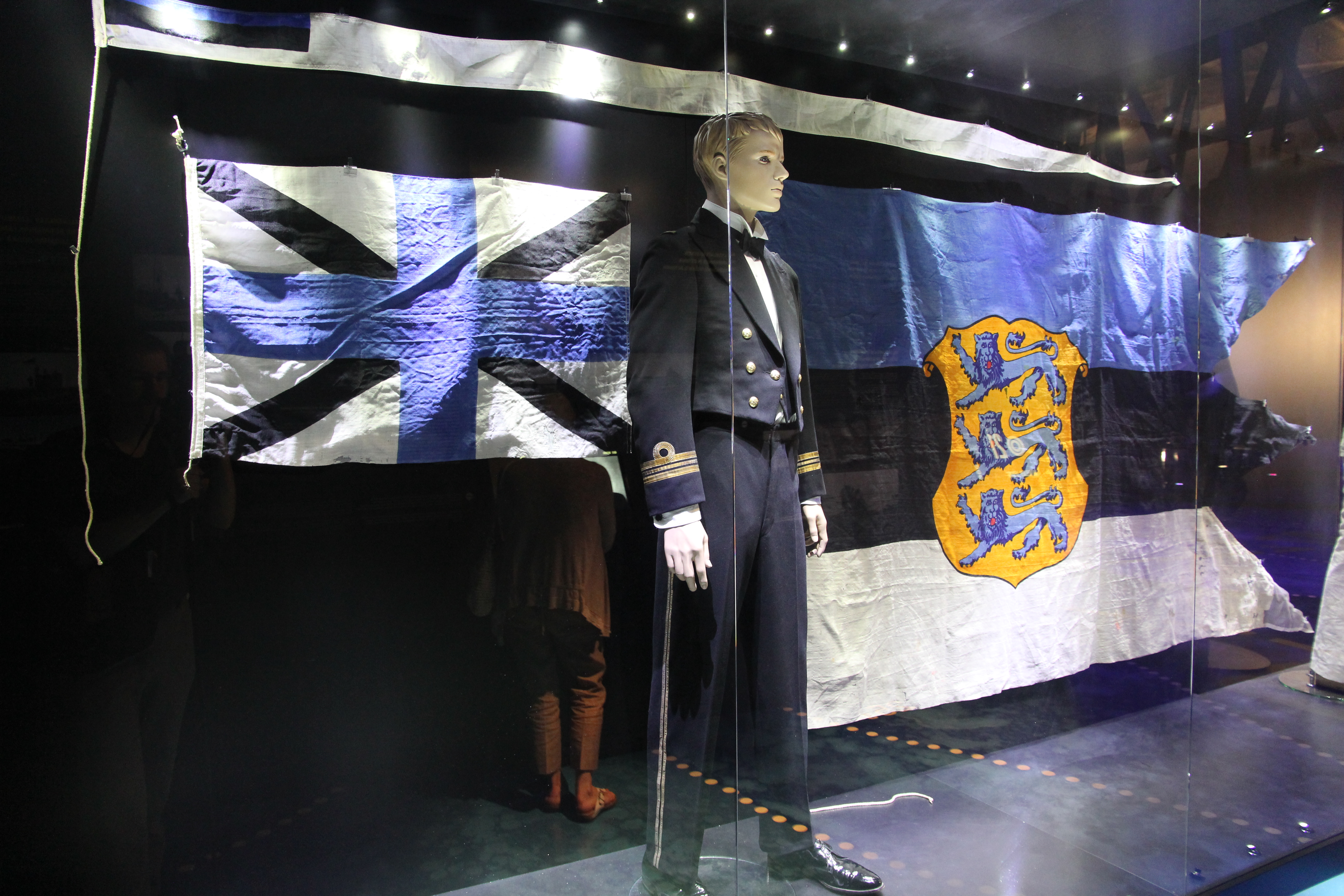 Estonian naval jack and naval ensign in Lennusadam maritime museum.